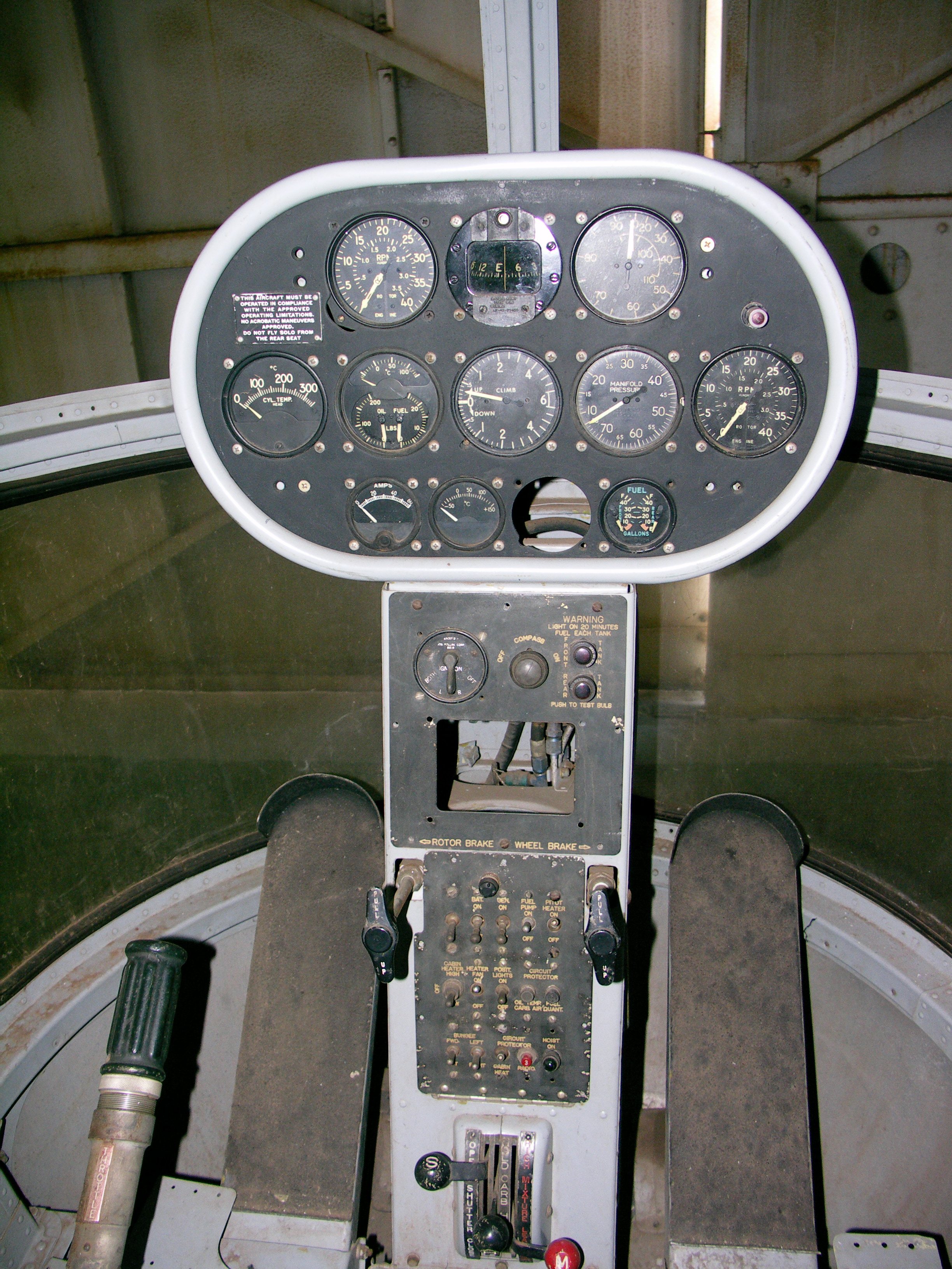 Cockpit of a Sikorsky S-51